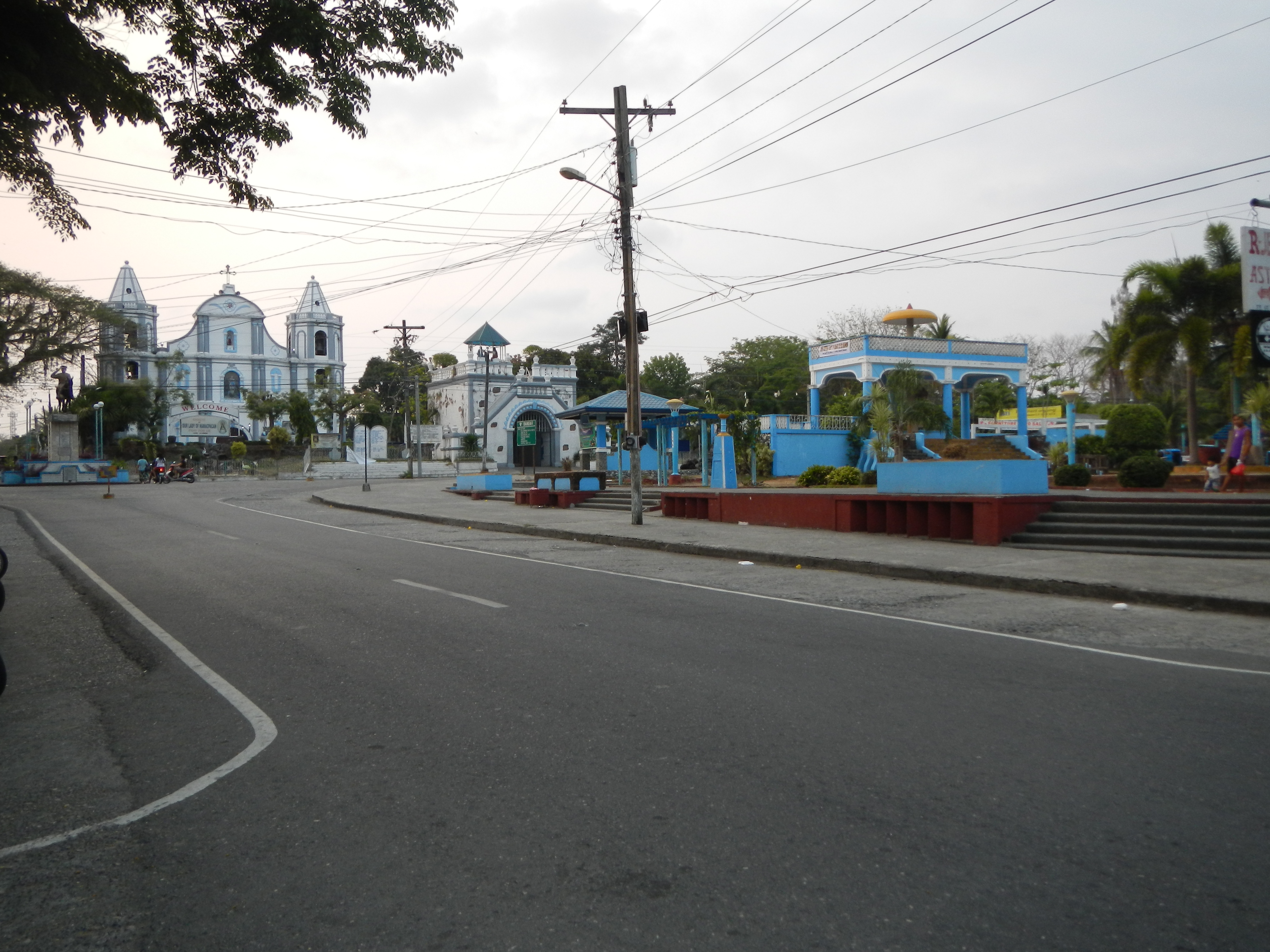 Museo de Nuestra Señora de Namacpacan beside the Pilgrim's House is part of and beside the Luna, La Union Union La Union province Our Lady Apo Baket of Namacpacan Saint Catherine of Alexandria Parish (Shrine of Our Lady of Namacpacan) [1] Santa Catalina de Alejandria built in the 18th-19th centuries by the Augustinians; it was declared as a National Cultural Treasure by the National Museum of the Philippines).